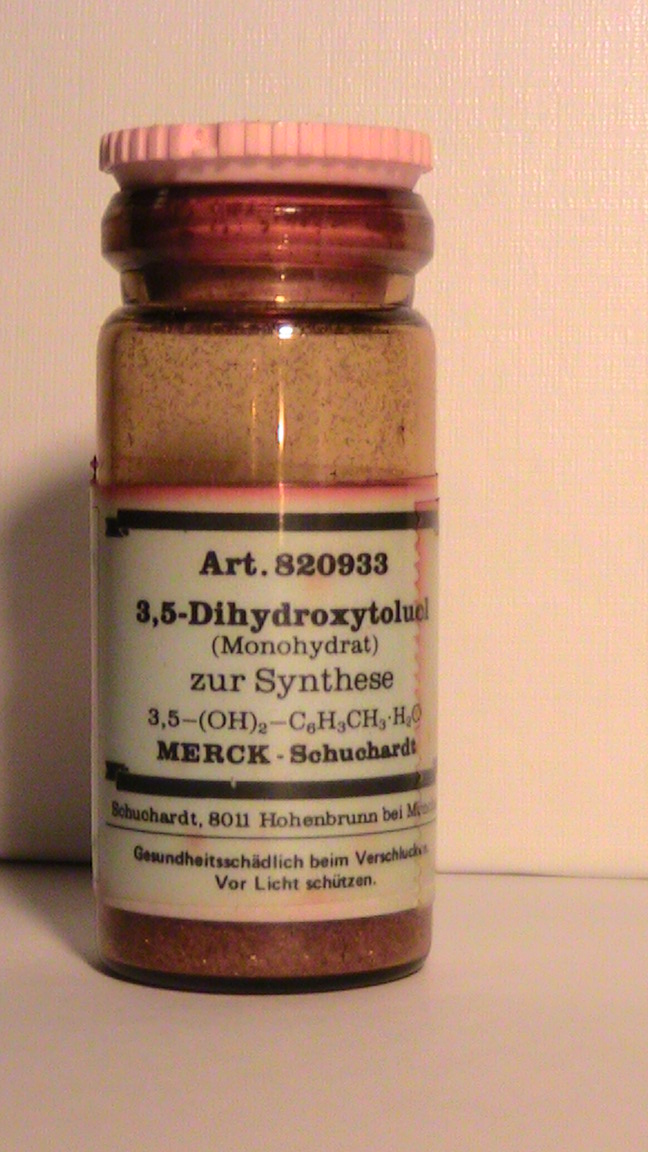 Orcin, Orcinol, 3,5-Dihydroxytoluene, 5-Methylresorcinol